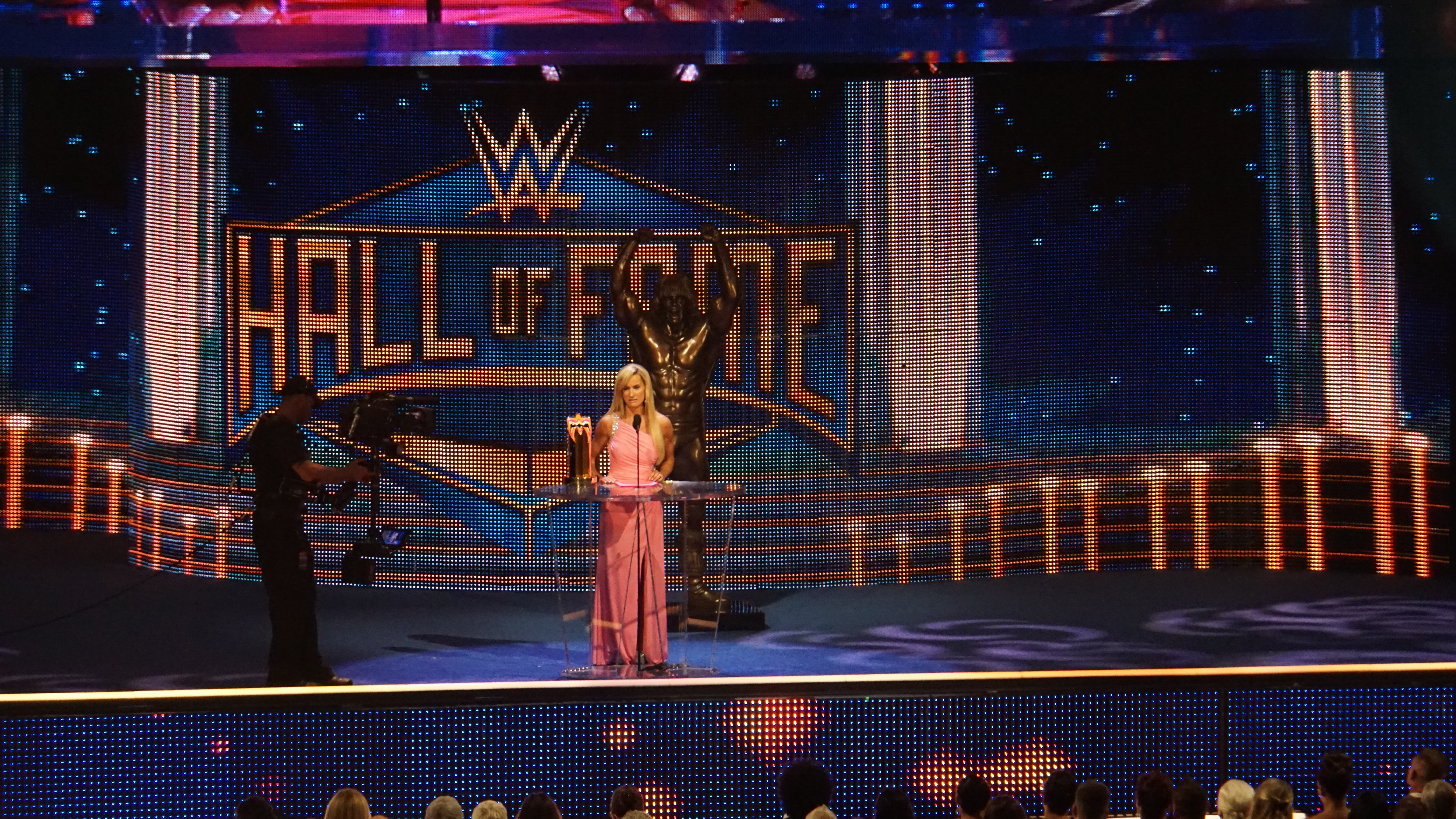 WWE Hall Of Fame 2015